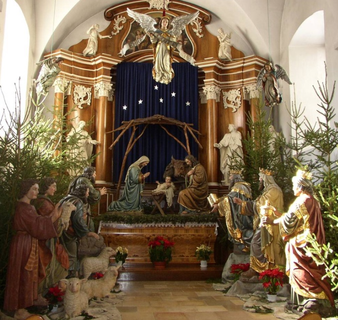 Schagerl Weihnachtskrippe